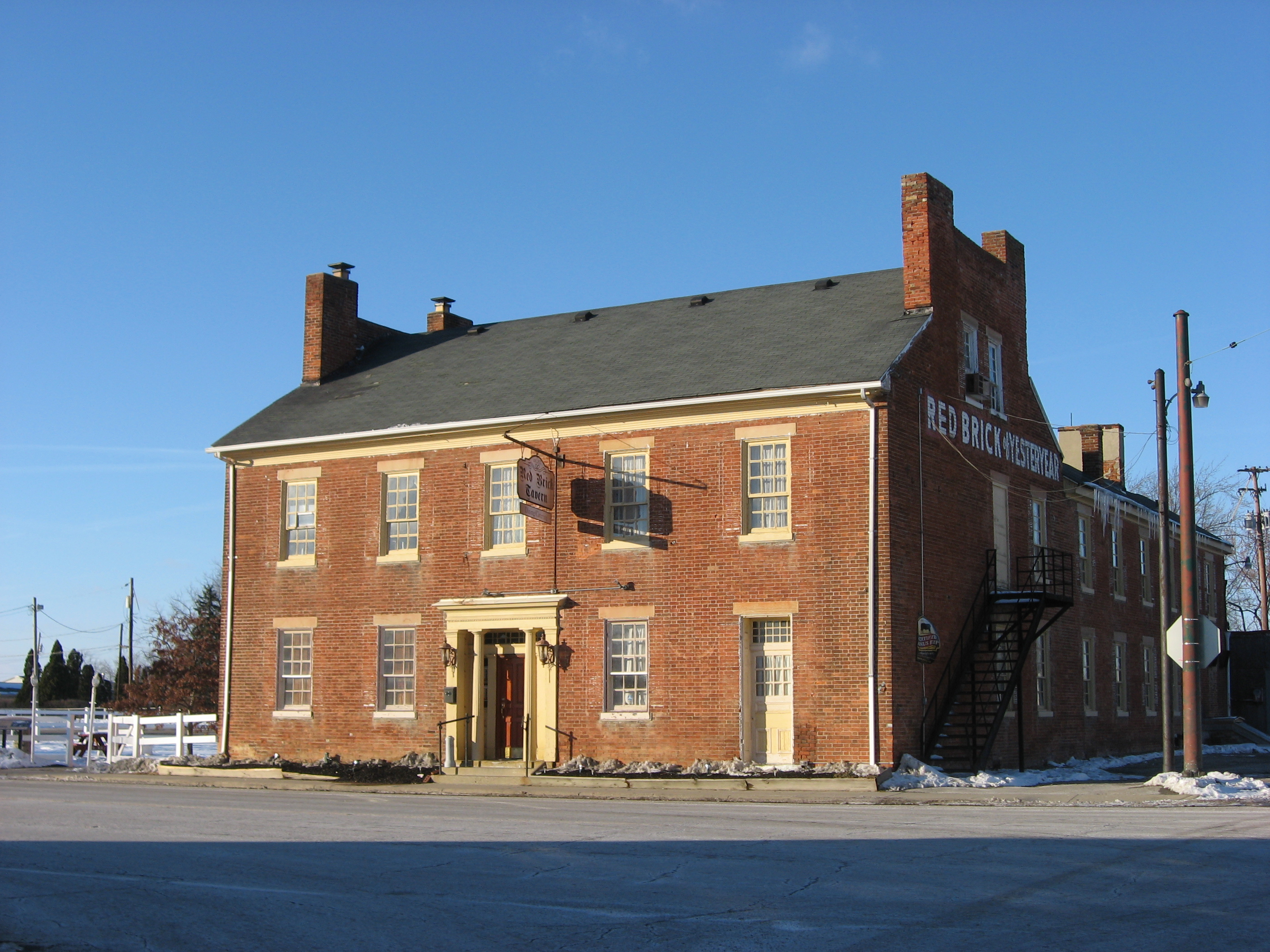 Front and eastern side of the Red Brick Tavern, located at 1700 Cumberland Road (U.S. Route 40) in Lafayette, Deer Creek Township, Madison County, Ohio, United States. Built in 1837, it is listed on the National Register of Historic Places.